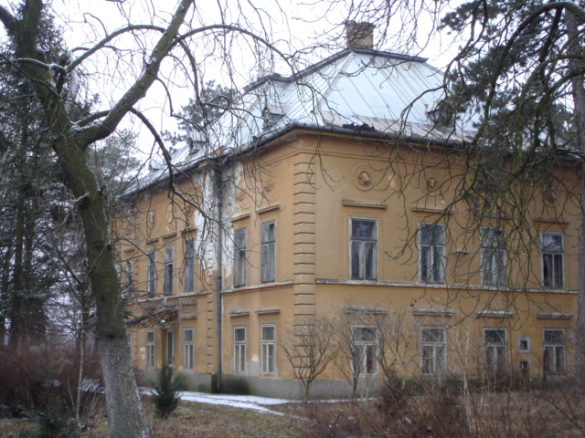 Rohonczy Gedeon Castle on Biserno Ostrvo (translated into English as Pearl Island, Hungarian: Gyöngysziget), near Novi Bečej, Vojvodina, Serbia.